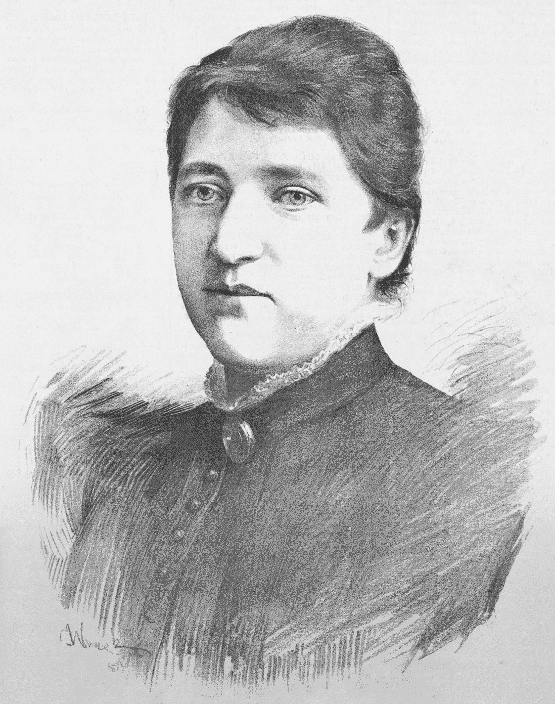 Portrait of Betty Fibichová, Czech actress and wife of composer Zdeněk Fibich